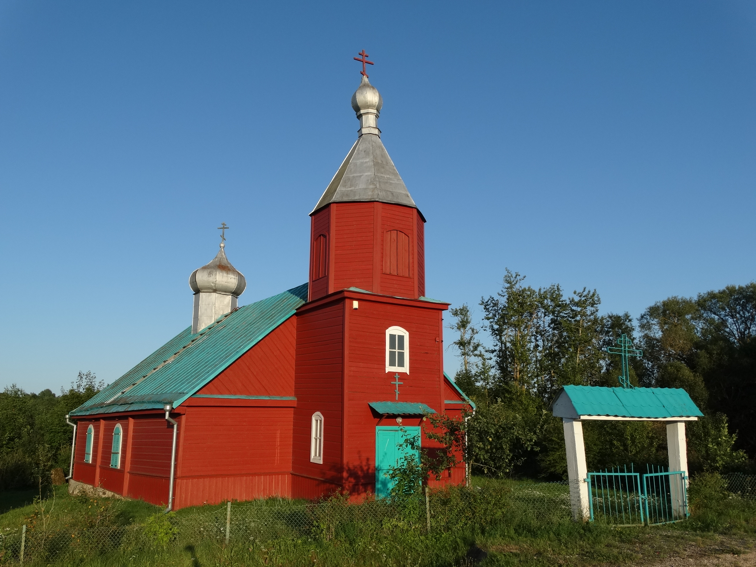 Orthodox Church of Old Believers in Gailiūnai, Molėtai District, Lithuania